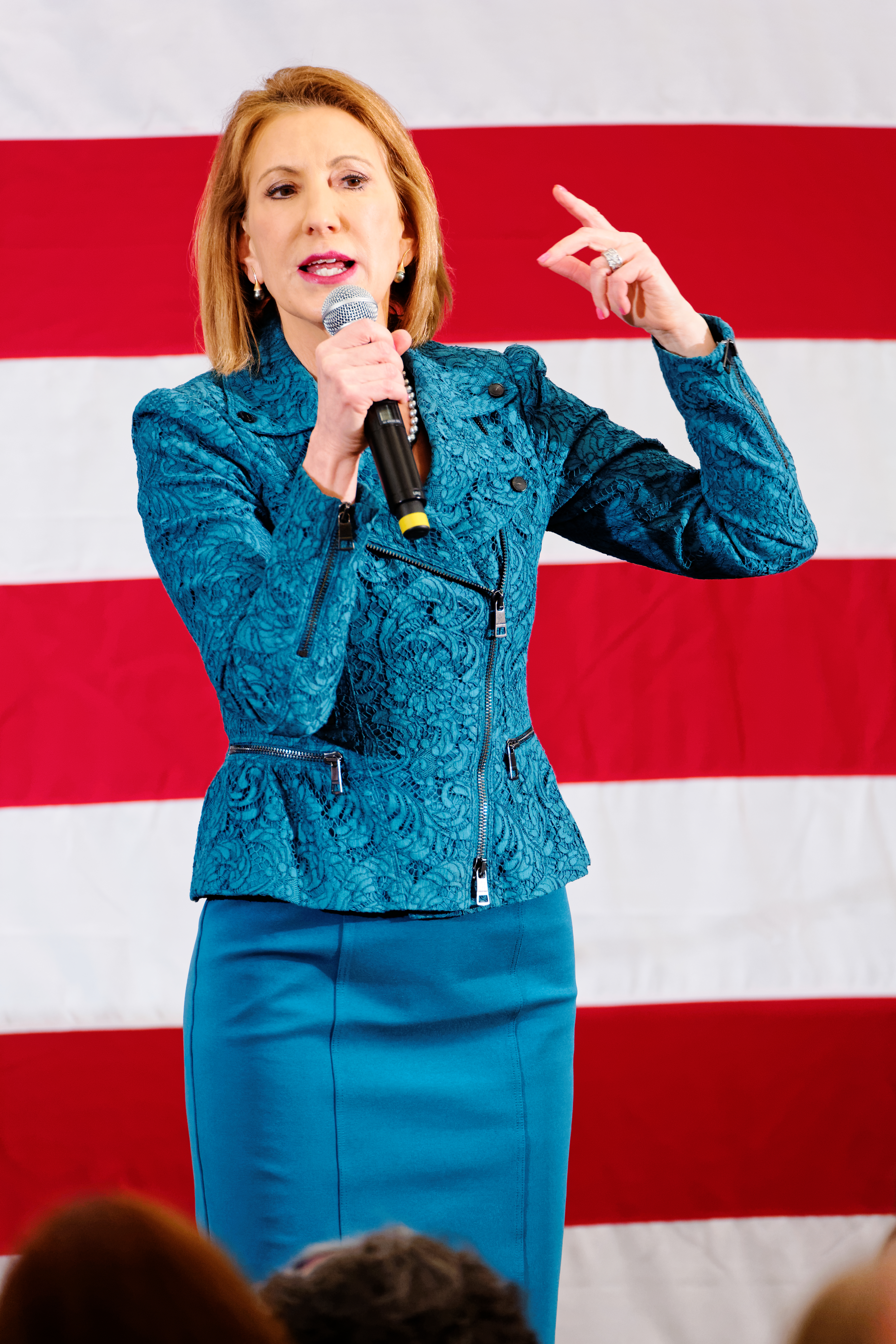 FITN First In Nation Republican Leadership Summit, Nashua, New Hampshire Crowne Plaza Nashua Address: 2 Somerset Pkwy, Nashua, NH 03063 Every four years, the political world descends upon New Hampshire to take part in the “First-in-the-Nation” Presidential Primary. On April 17th and 18th that excitement will again percolate in the Granite State for the #FITN Republican Leadership Conference. Carly Fiorina (born Cara Carleton Sneed; September 6, 1954) is an American former business executive and was the Republican nominee for the United States Senate from California in 2010. Fiorina served as chief executive officer of Hewlett-Packard from 1999 to 2005 after being an executive at AT&T and its equipment and technology spinoff, Lucent. Fiorina was considered one of the most powerful women in business during her tenure at Lucent and Hewlett-Packard. While she was chief executive at HP, the company weathered the collapse of the dot-com bubble, although the stock lost half of its value throughout her tenure. In 2002, the company completed a contentious merger with rival computer company Compaq, which made HP the world's largest personal computer manufacturer. In 2005, Fiorina was forced to resign as chief executive officer and chair of HP following "differences [with the board of directors] about how to execute HP's strategy." She has frequently been ranked as one of the worst tech CEOs of all time. Fiorina served as an advisor to Republican John McCain's 2008 presidential campaign. She was the Republican nominee for the United States Senate from California in 2010, losing to incumbent Democratic Senator Barbara Boxer. She is actively considering running for President in 2016.